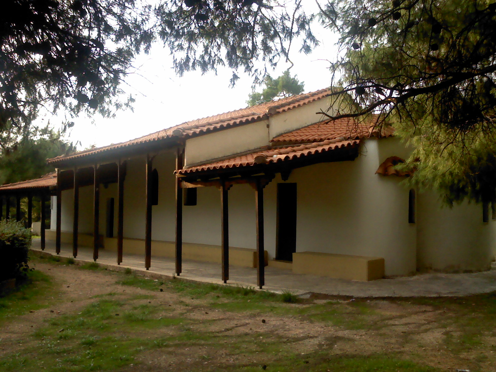 Agios Xaralampos Alsoupoli